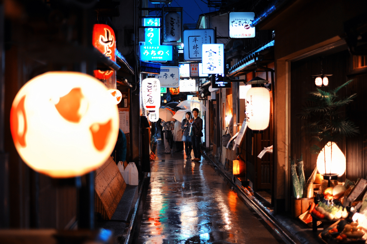 Narrow streets of historical part of Kyoto decorated with all kinds of traditional japanese lanterns at a rainy city night